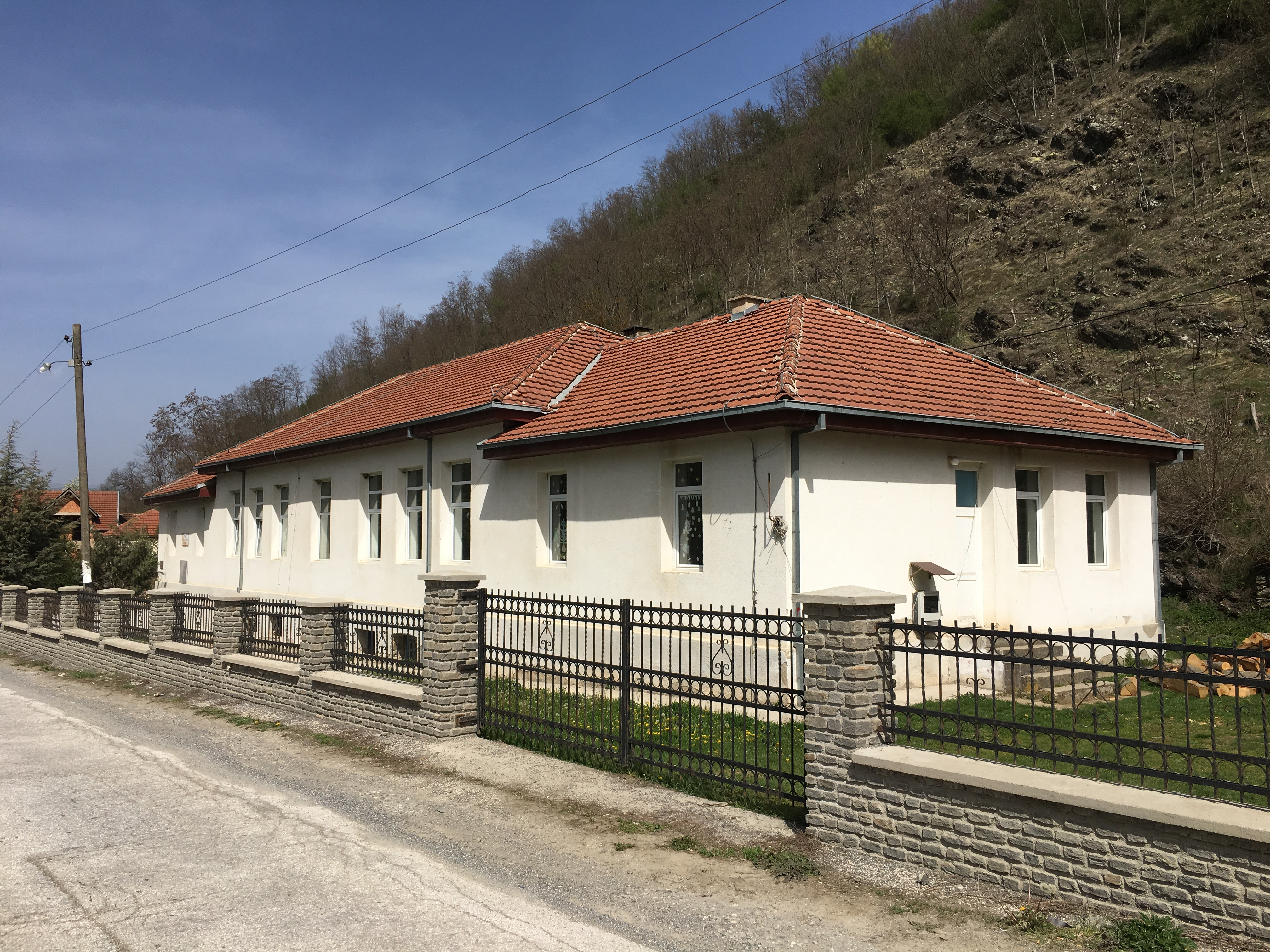 A primary school in the village of Židilovo